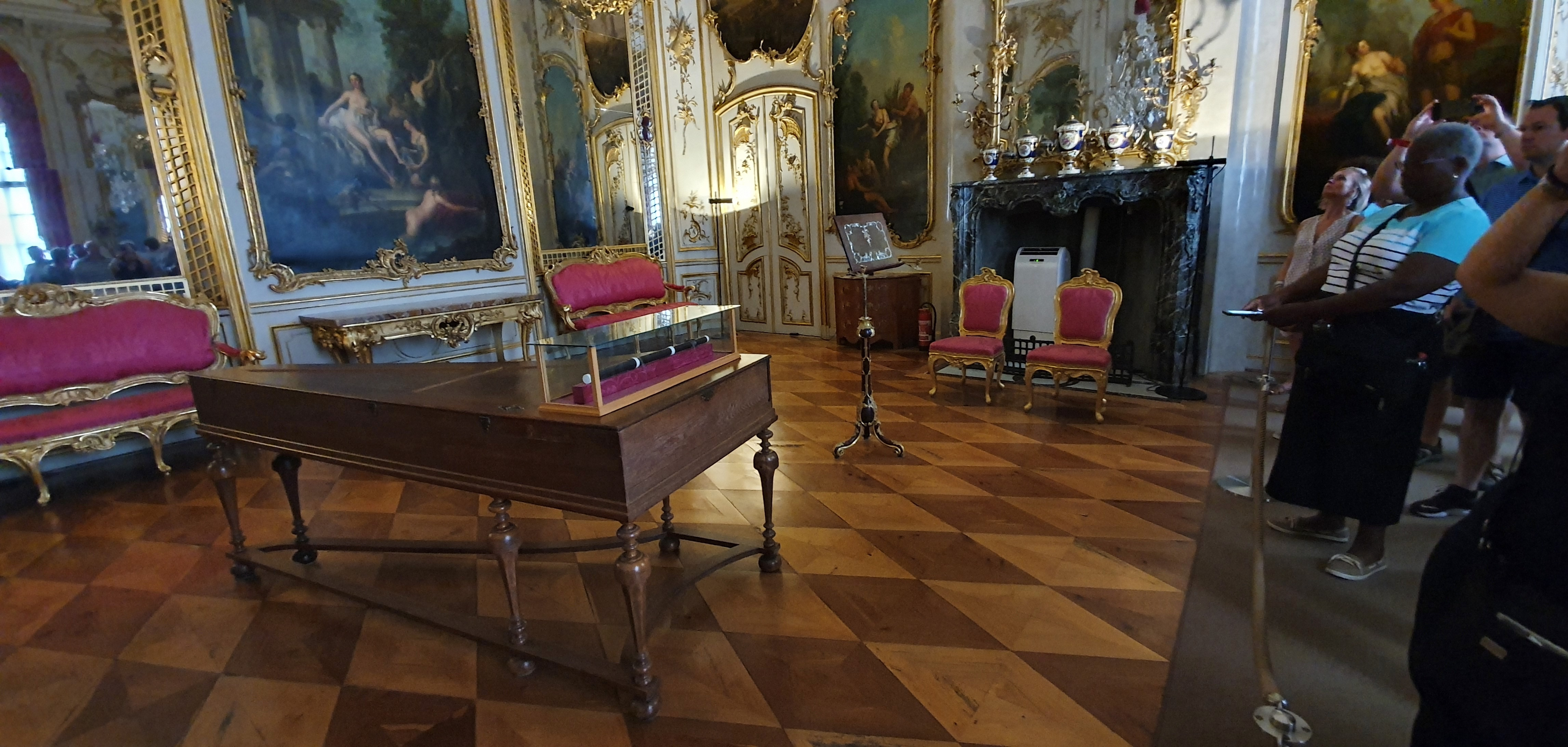 Music room at interior of Schloss Sanssouci in Potsdam